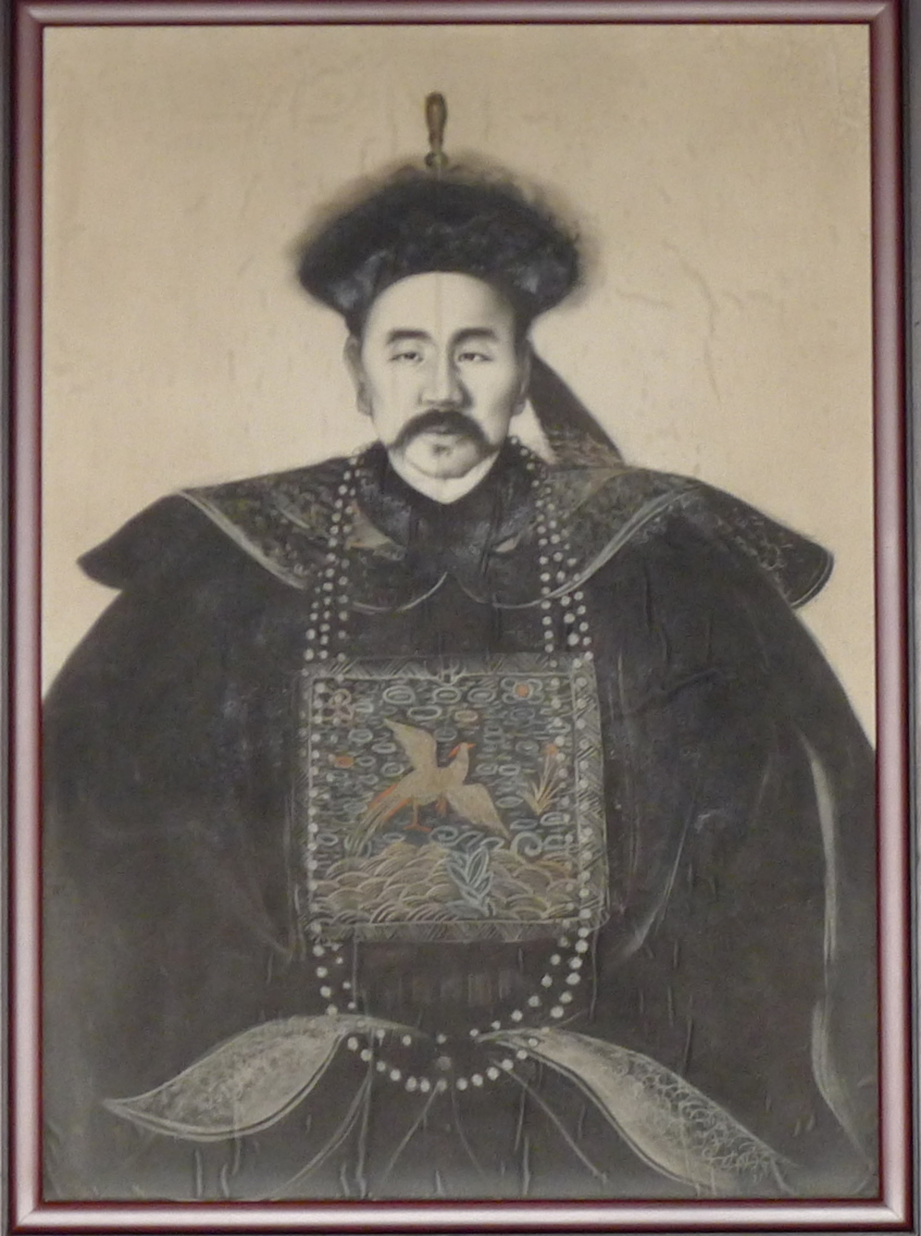 Portrait of Hu Xueyan